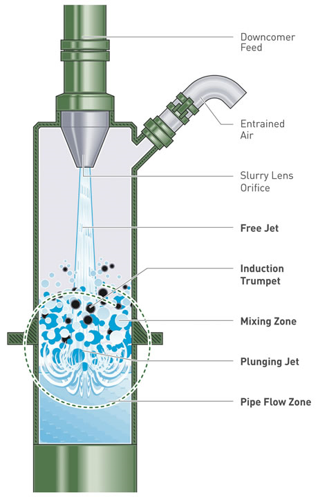 Diagram explaining the concept of the Jameson Cell downcomer. The Jameson Cell is a high-intensity flotation cell used in the mining industry.